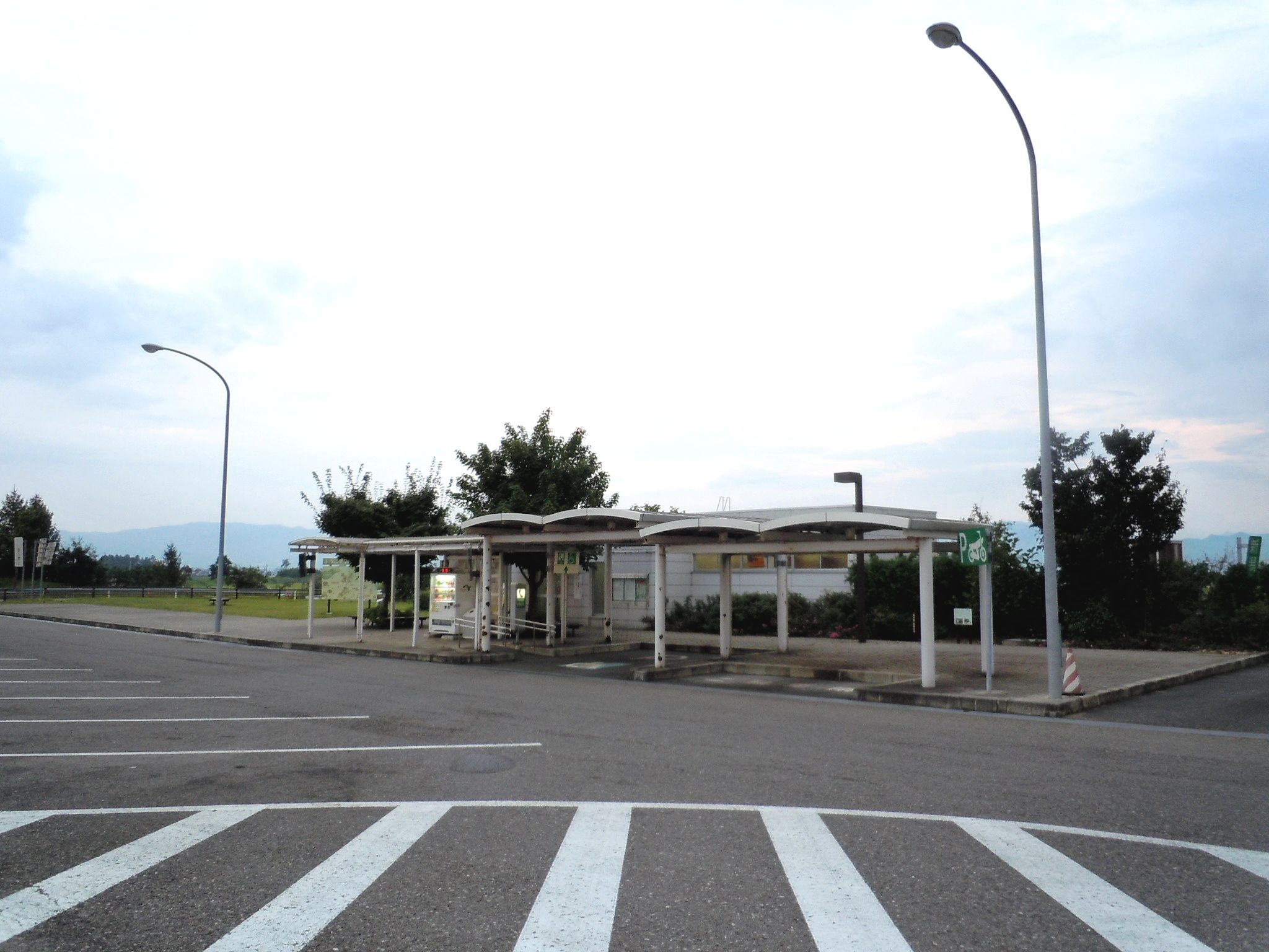 Niitsuru Parking Area on the Ban-etsu Expressway outbound line